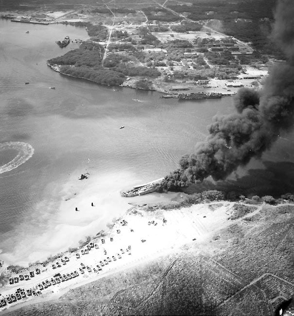 USS LST-480 afire again on 23 May 1944. The sunken remains of USS LST-353 are off her starboard bow. The beached and burned out hulk of LST-39 is in the left distance. Note the amphibious tractors (LVTs) parked in the left foreground.